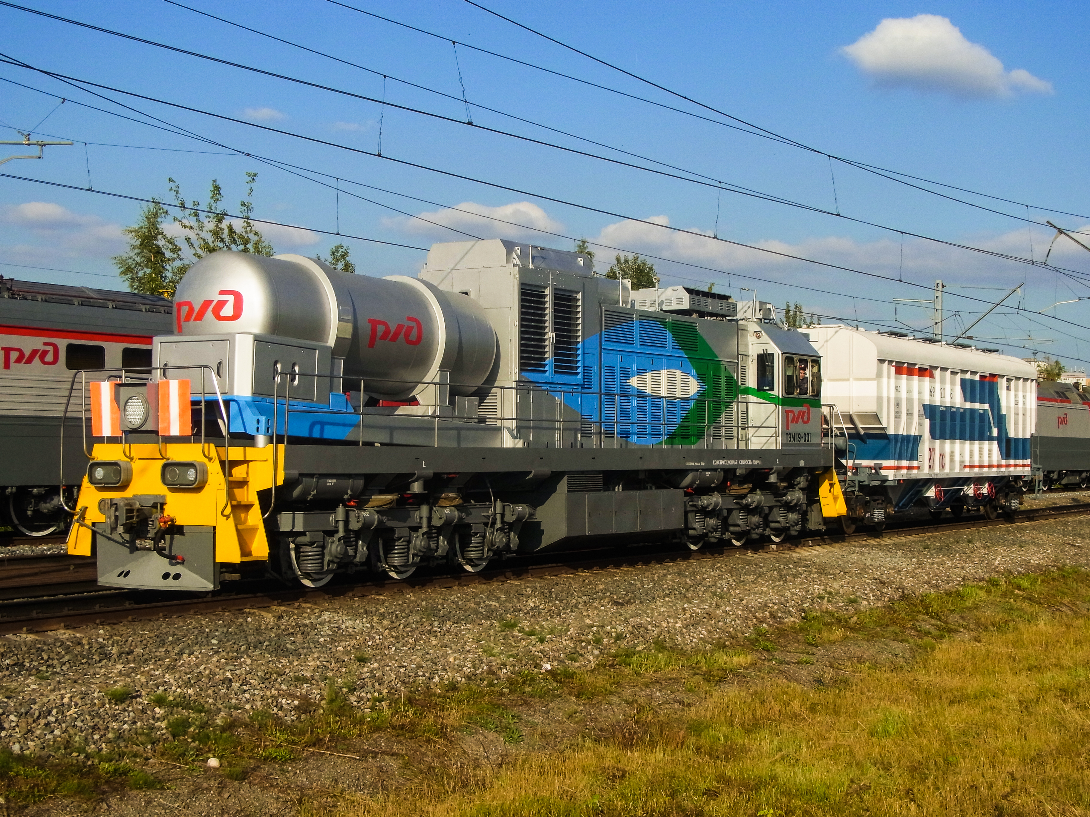 Diesel locomotive TEM19-001 with freight car at train parade during Expo 1520 railway exhibition in 2017 on railway test circuit in Shcherbinka, Moscow, Russia